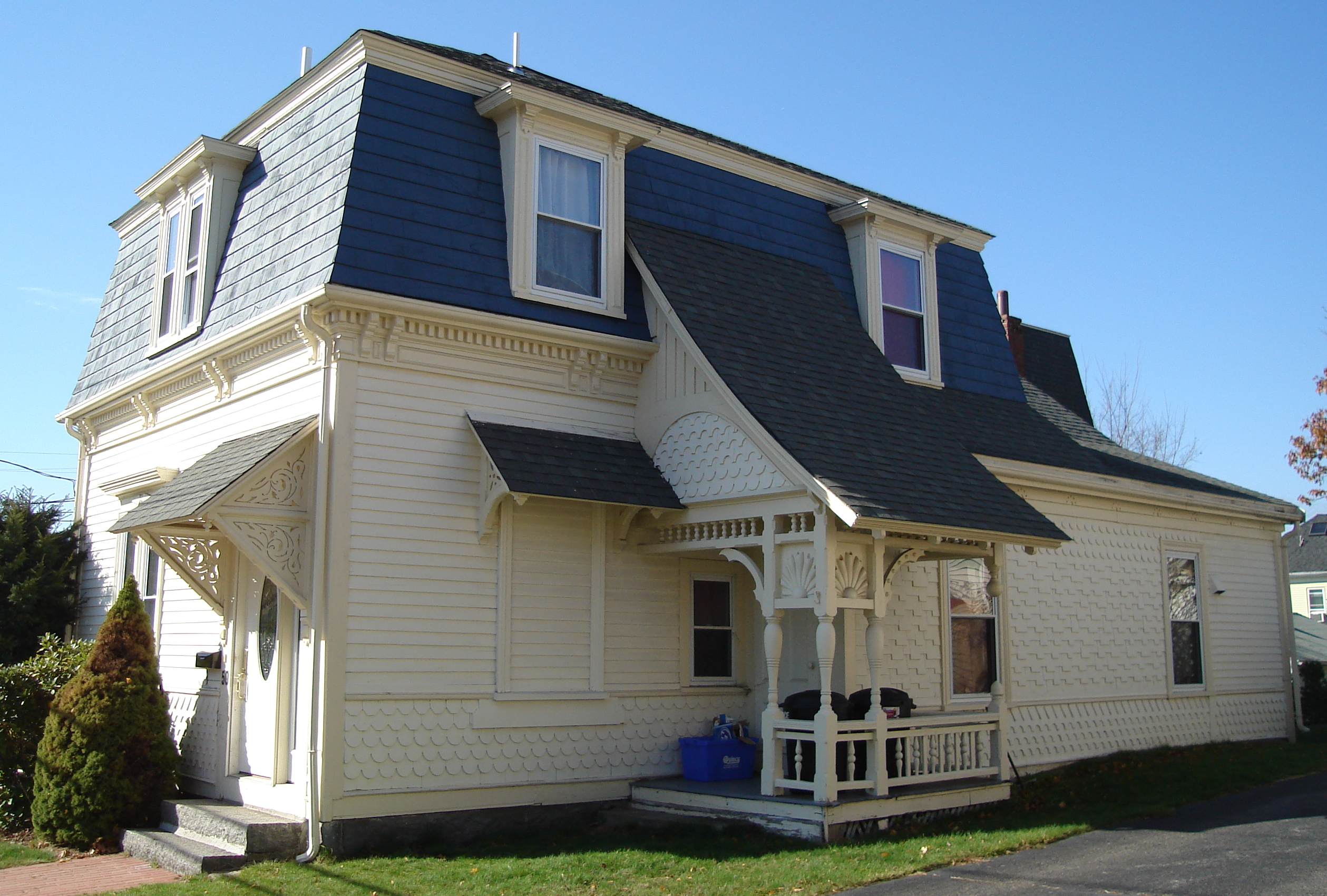 Solon Dogget House in Quincy, Massachusetts, built in 1872 and added to the National Register of Historic Places in 1989. External link